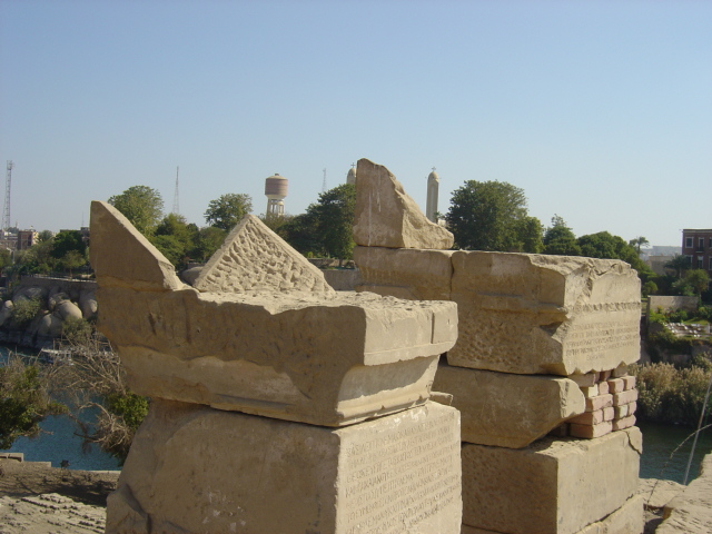 Egypte, Elephantine, Holocaust altaar